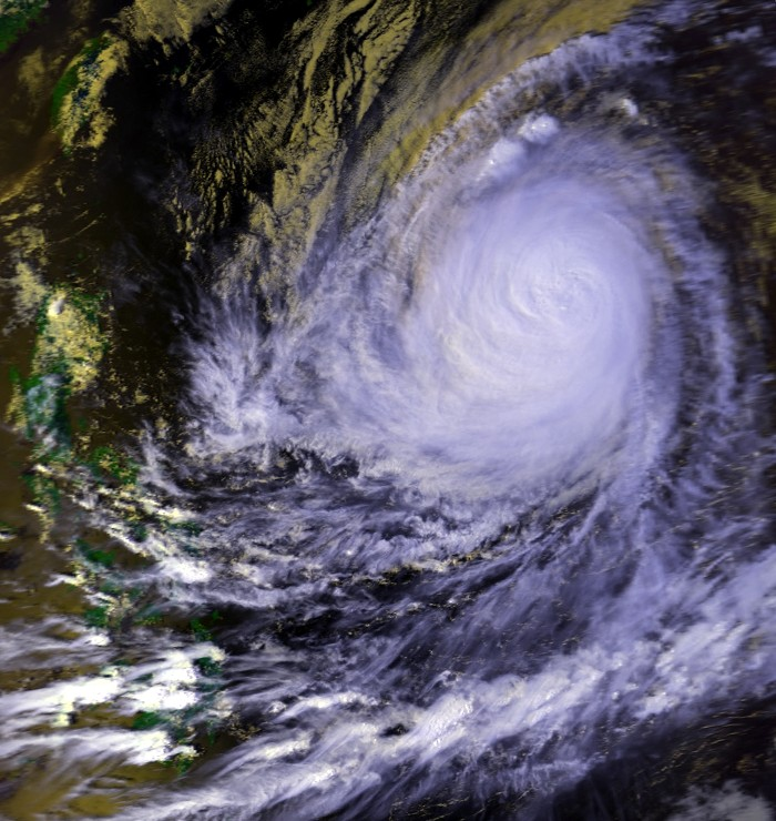 Super Typhoon Lynn approaching the Philippines on October 21 at 0515 UTC. This image was produced from data from NOAA-9, provided by NOAA.